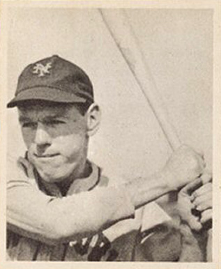 1948 Bowman baseball card of John "Buddy" Kerr of the New York Giants #20. PD-us-not-renewed.